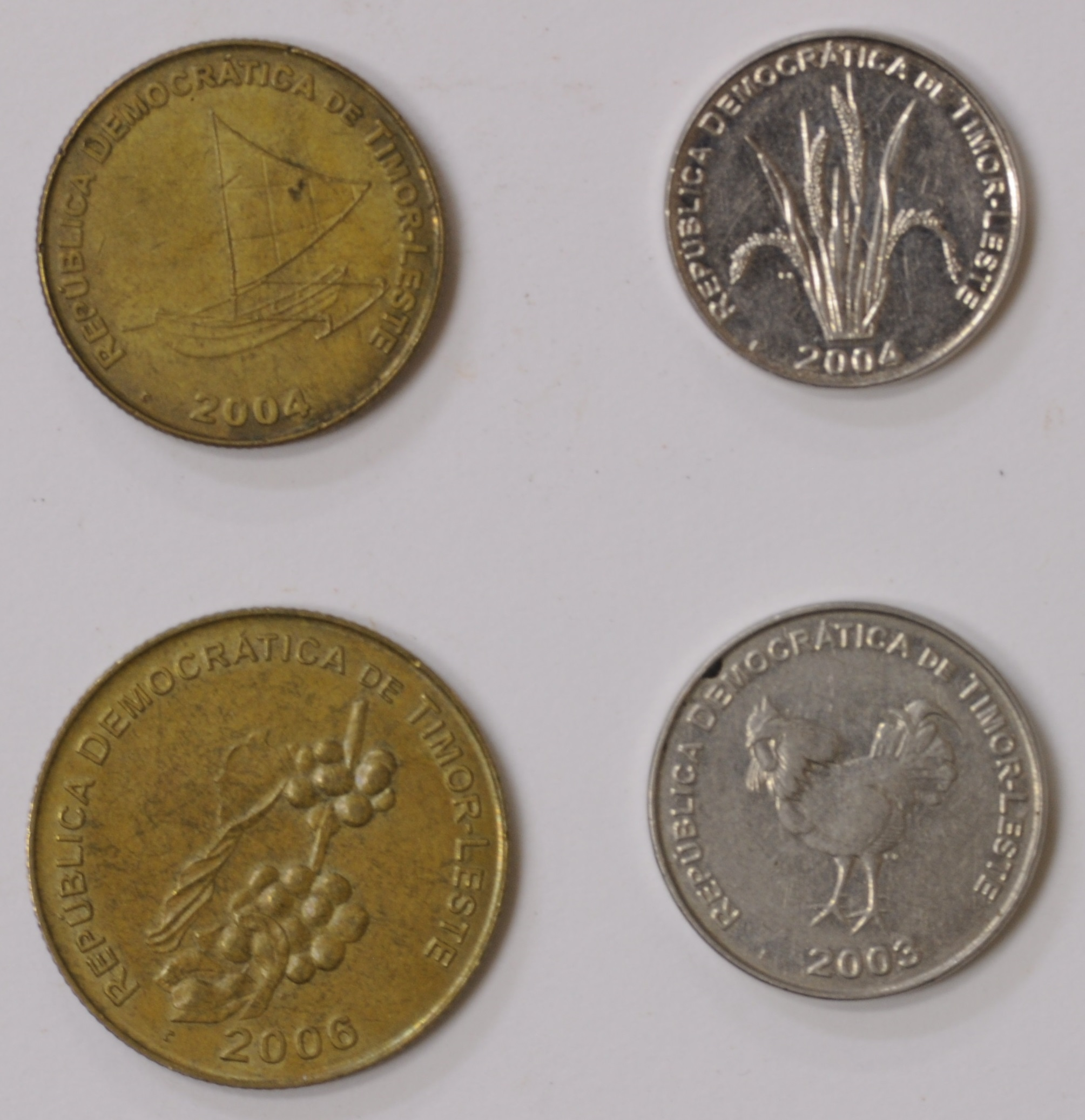 centavo coins from Timor-Leste